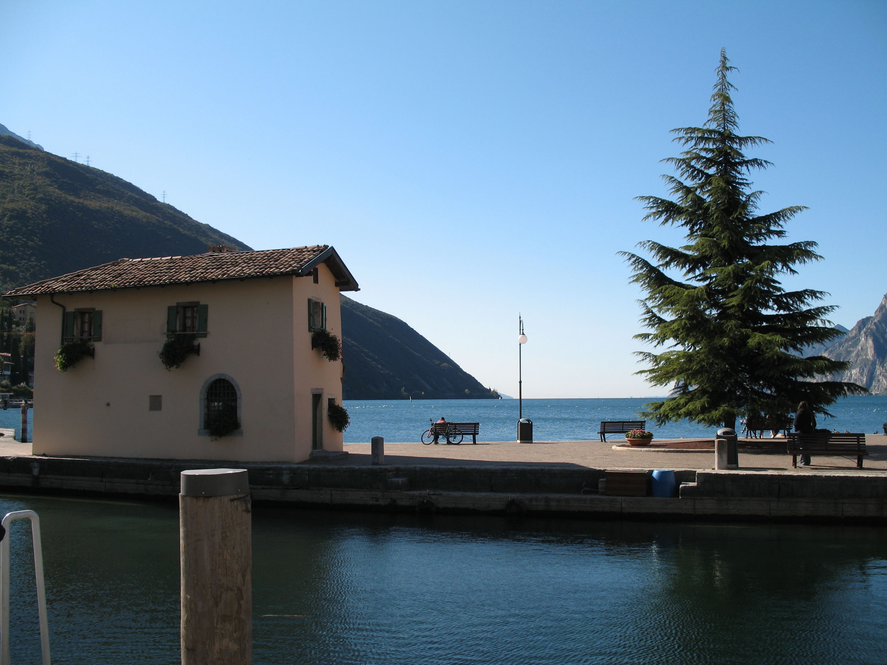 House near Nago at the Garda Lake